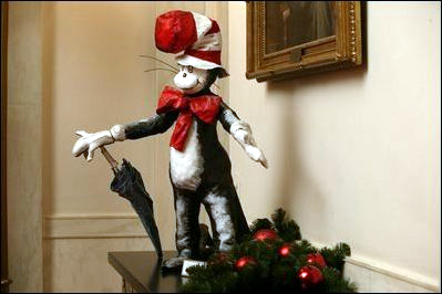 The White House 2003 Christmas decoration using the 1957 children's book The Cat in the Hat as the theme.